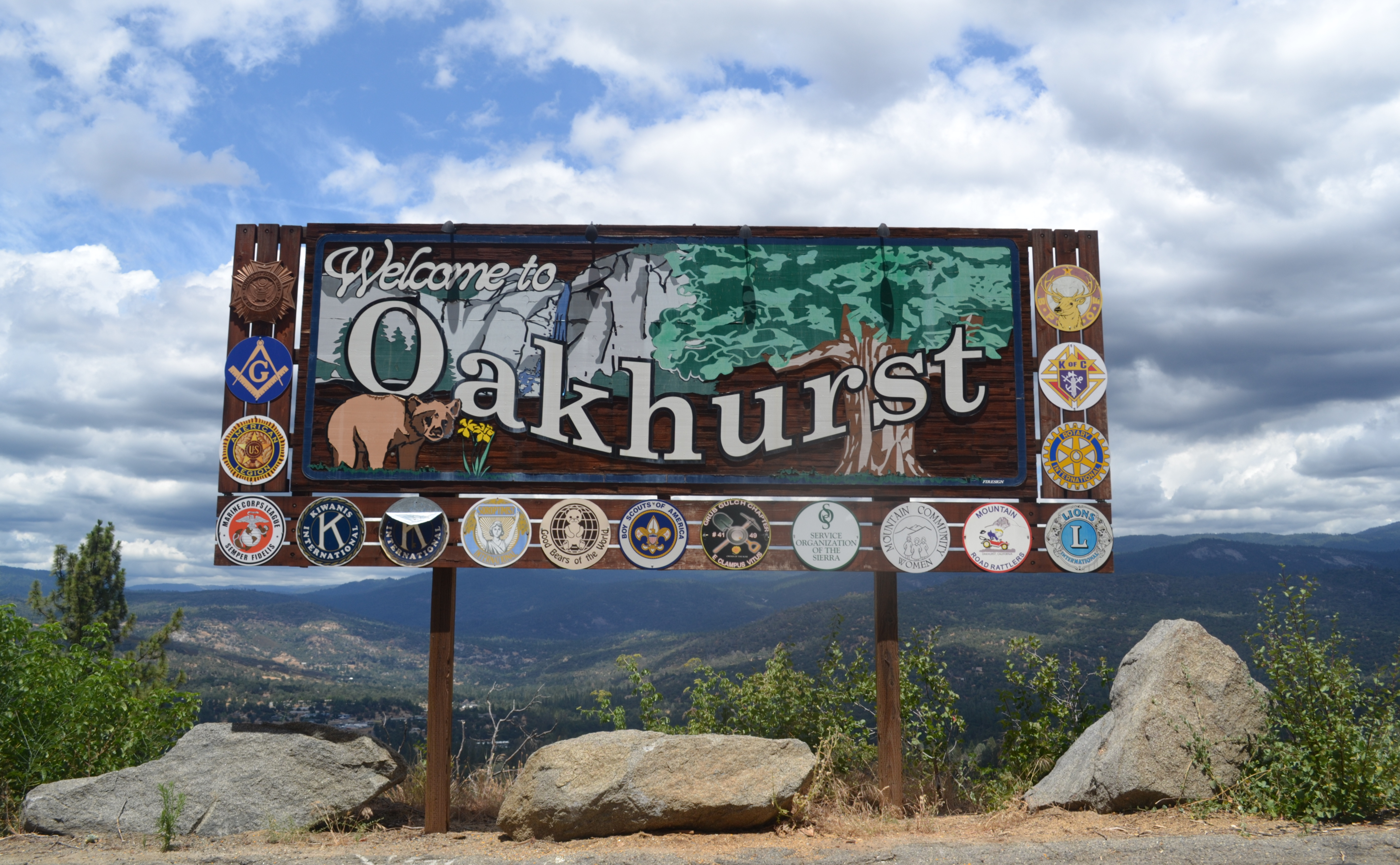 Welcome sign on CA-41 heading north into Oakhurst.